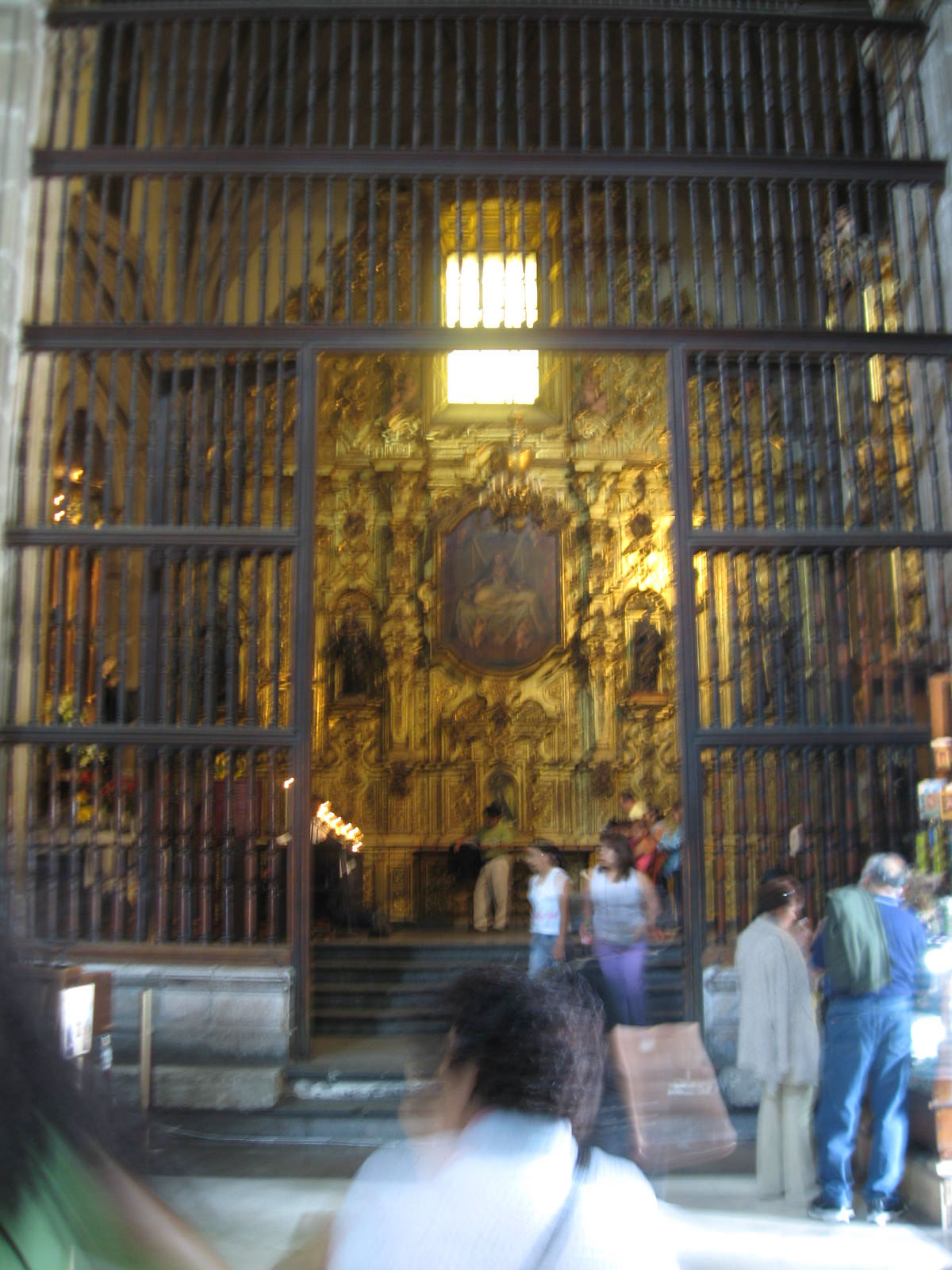 Chapel of Our Lady of the Agonies of Granada, located in the Mexico City Cathedral, Mexico.